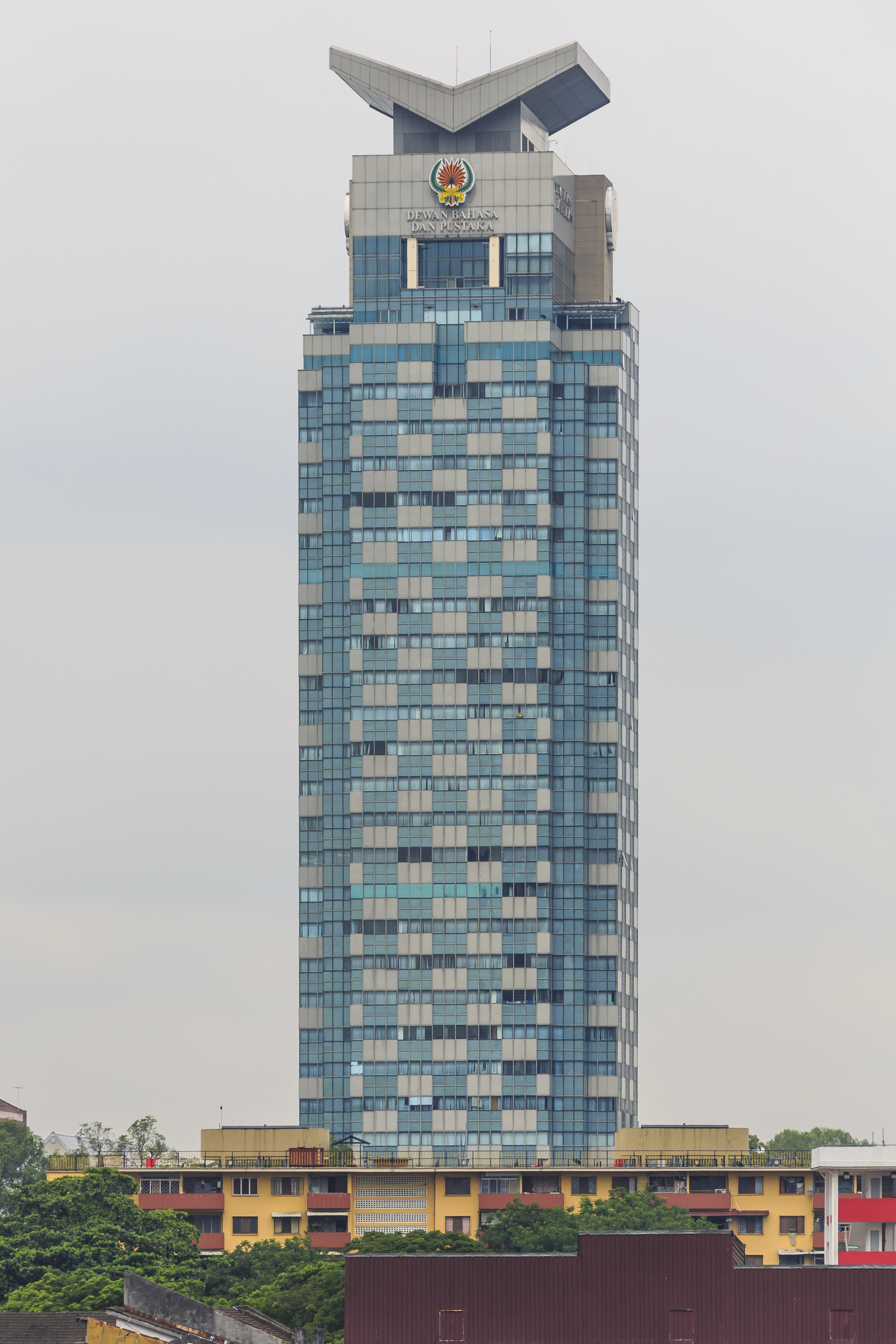 Kuala Lumpur, Malaysia: Headquarters of Dewan Bahasa Dan Pustaka